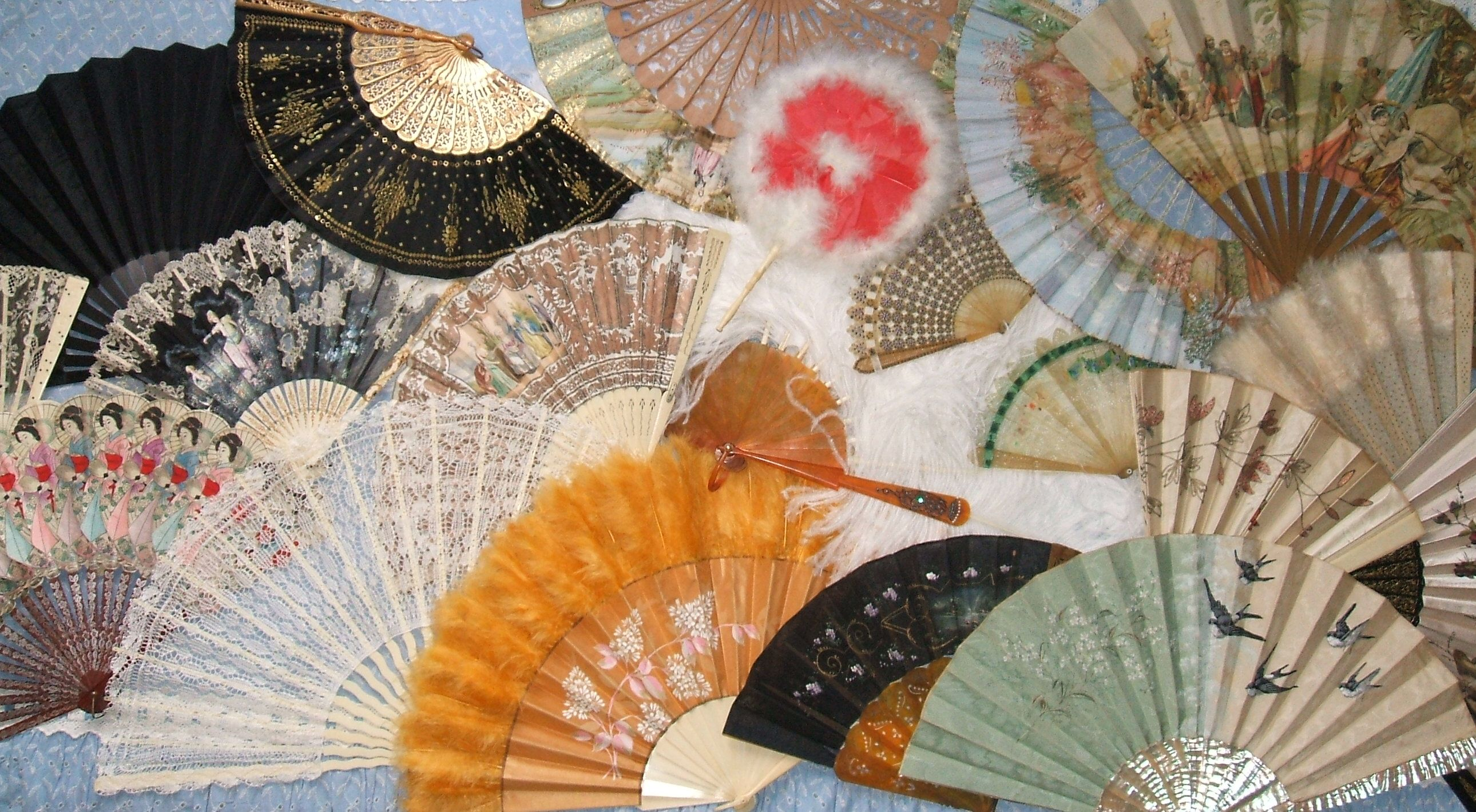 Pontes Collection of hand fans